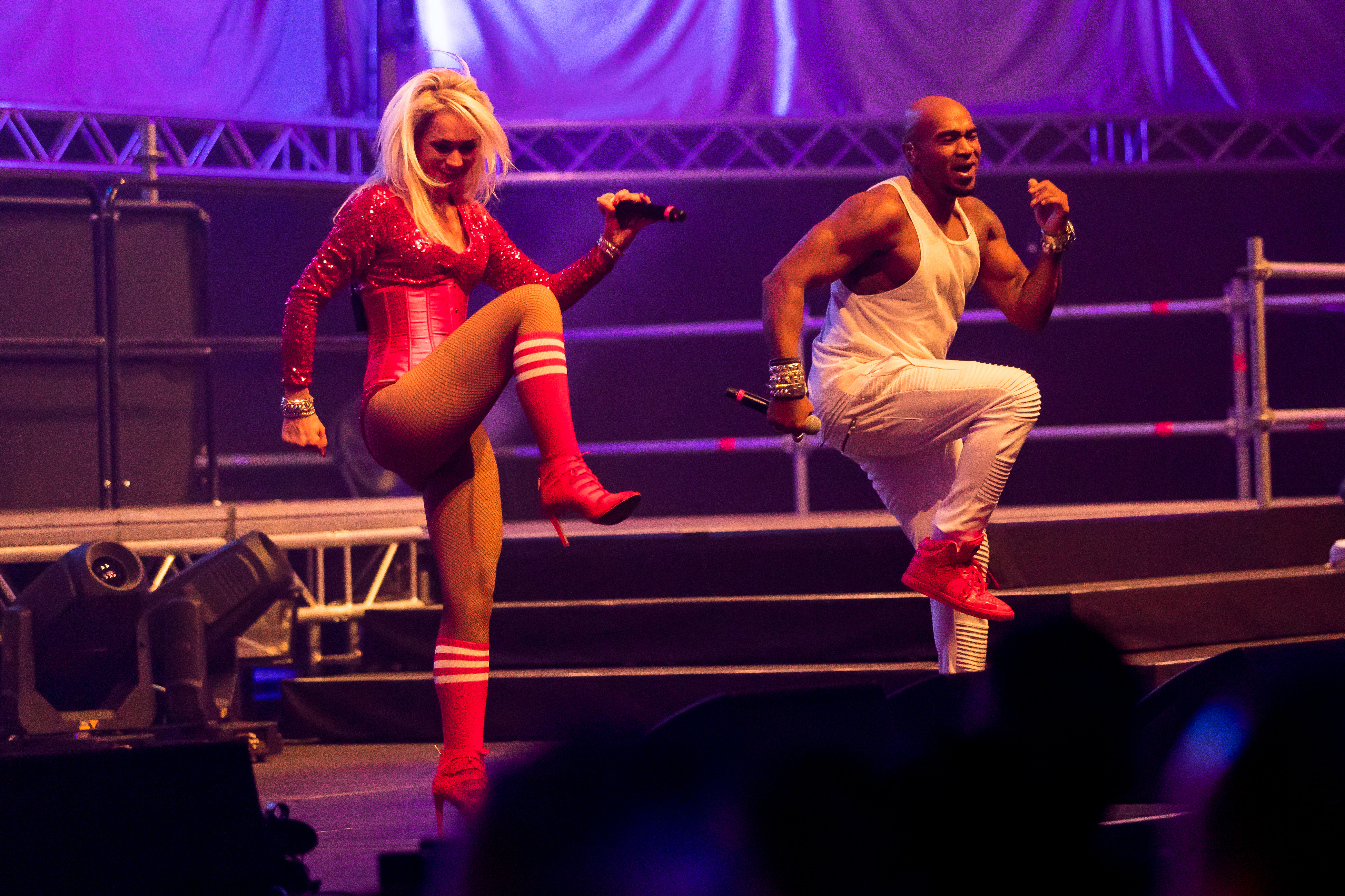 Twenty 4 Seven during Sunshine Live - 90er Live on Stage at Maimarkt Halle, Mannheim, Baden Württemberg, Germany on 2016-11-26, Photo: Sven Mandel DJ Falk, E-Rotic, Twenty 4 Seven, Rednex, Vengaboys, Masterbox feat. Beatrix Delgado, 2 Brother on the 4th Floor, 2 Unlimited, Interactive, Charly Lownoise, Marusha